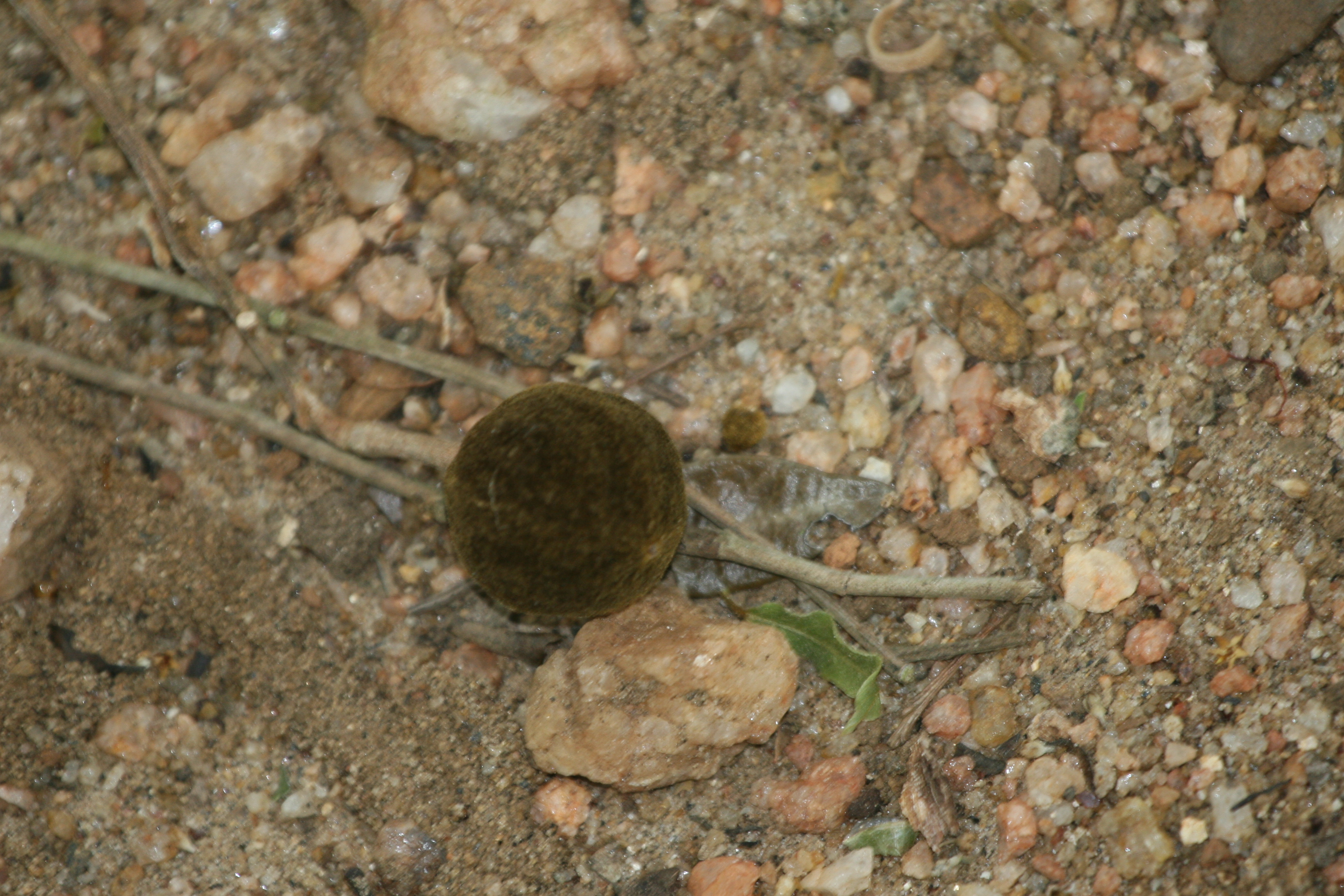 H.venenata fruit